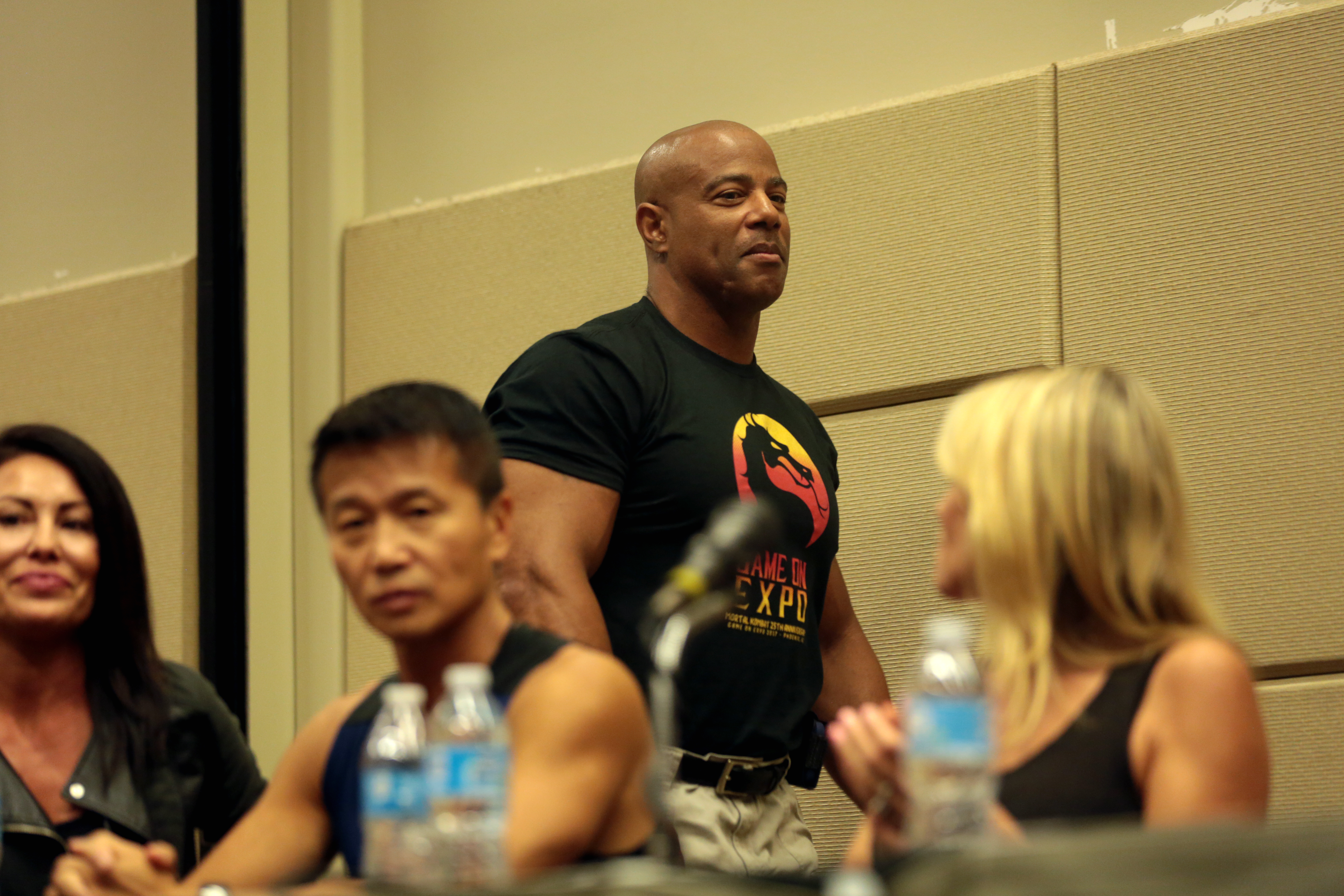 John Parrish speaking with attendees at the 2017 Game On Expo, for "Mortal Kombat 25th Anniversary Reunion", at the Phoenix Convention Center in Phoenix, Arizona.